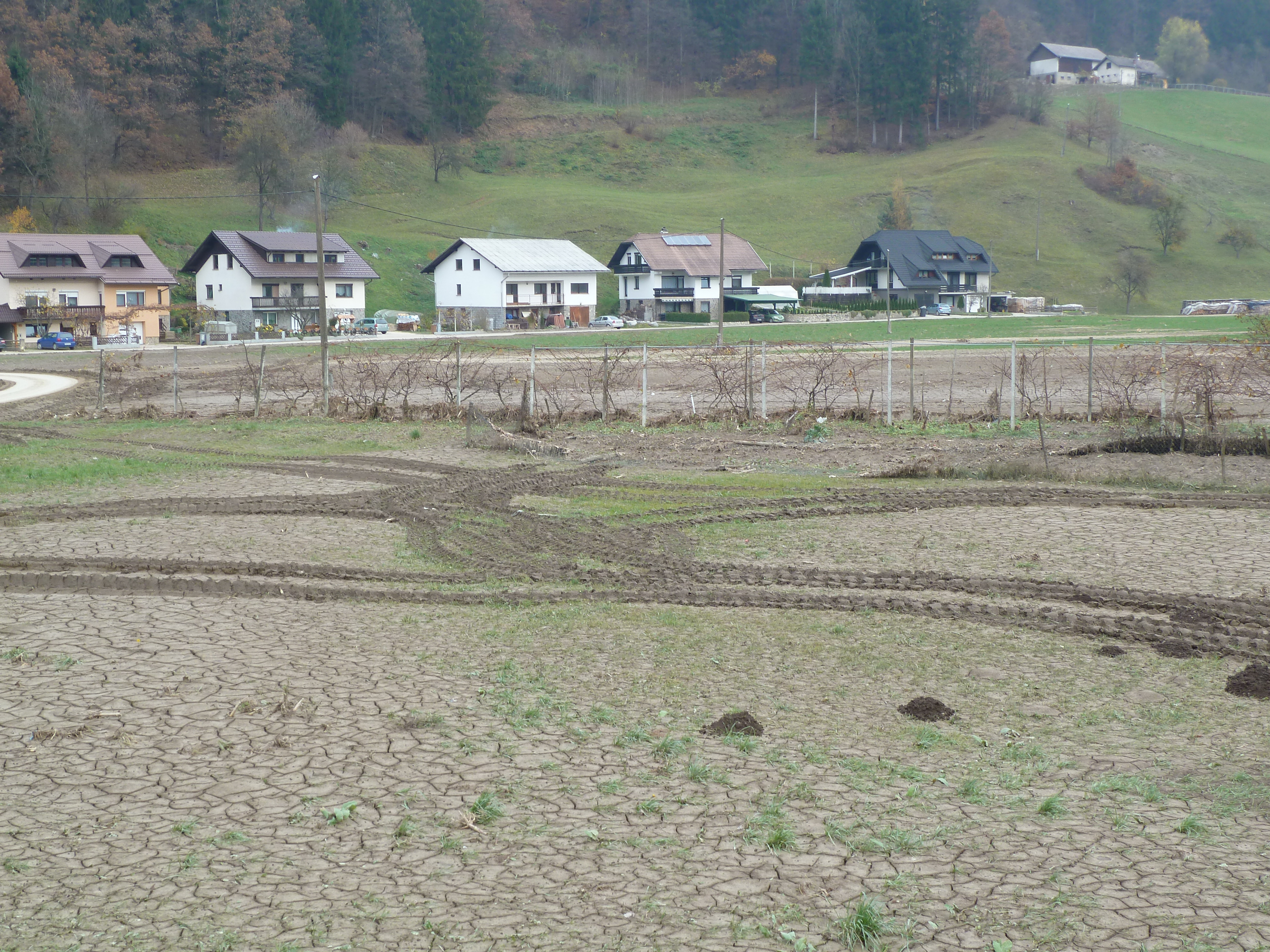 Flood plain of the Mislinja River at Bukovska vas after the flood of November 5, 2012